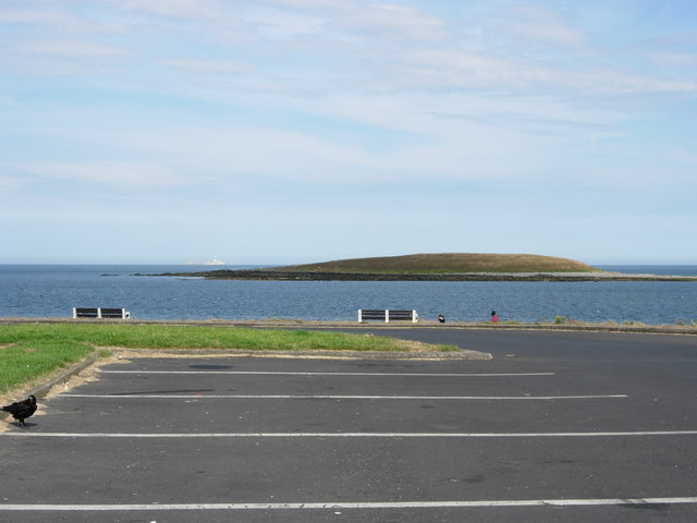 Red Island Car Park with view of Colt Island